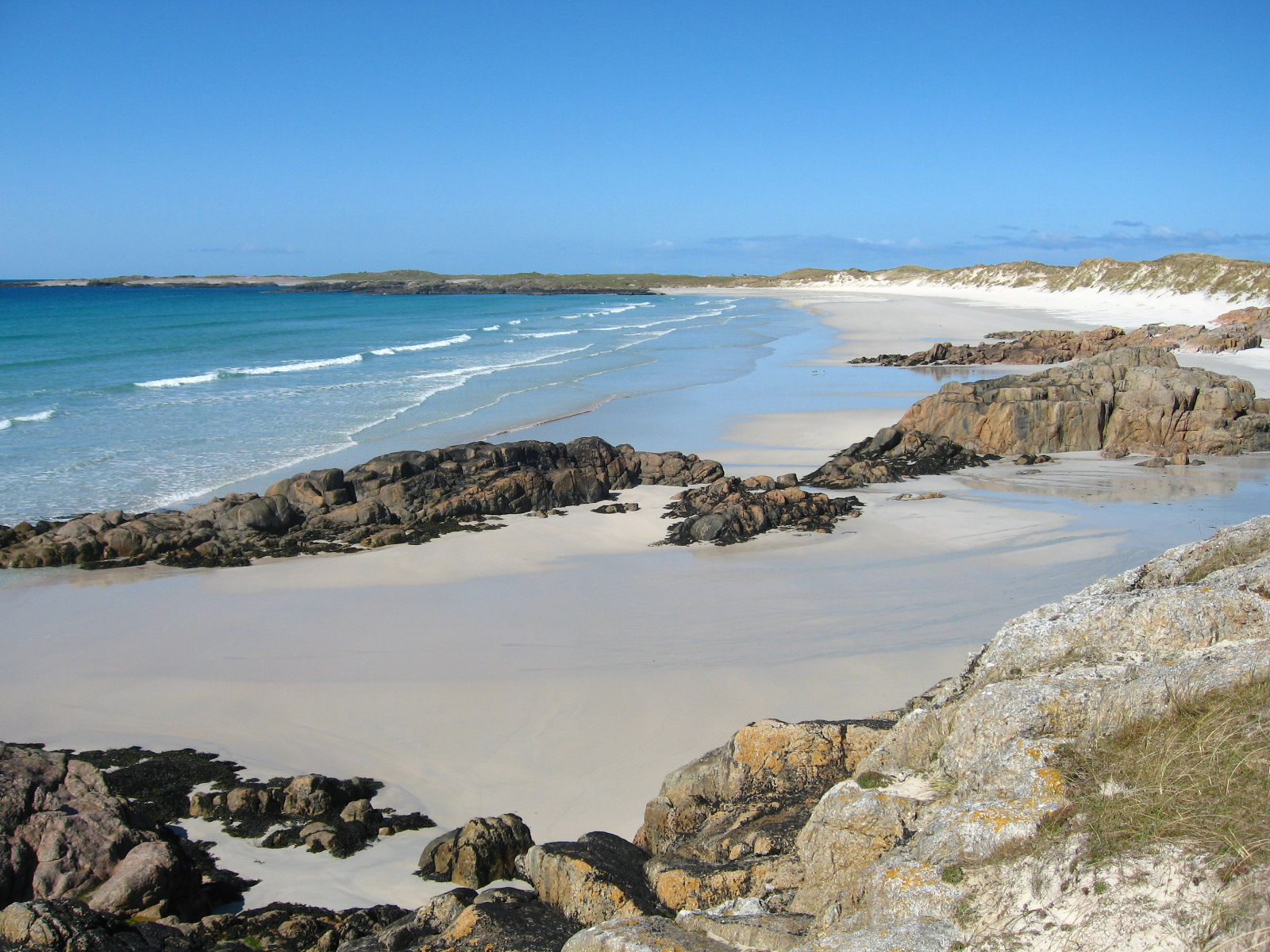 Tiree